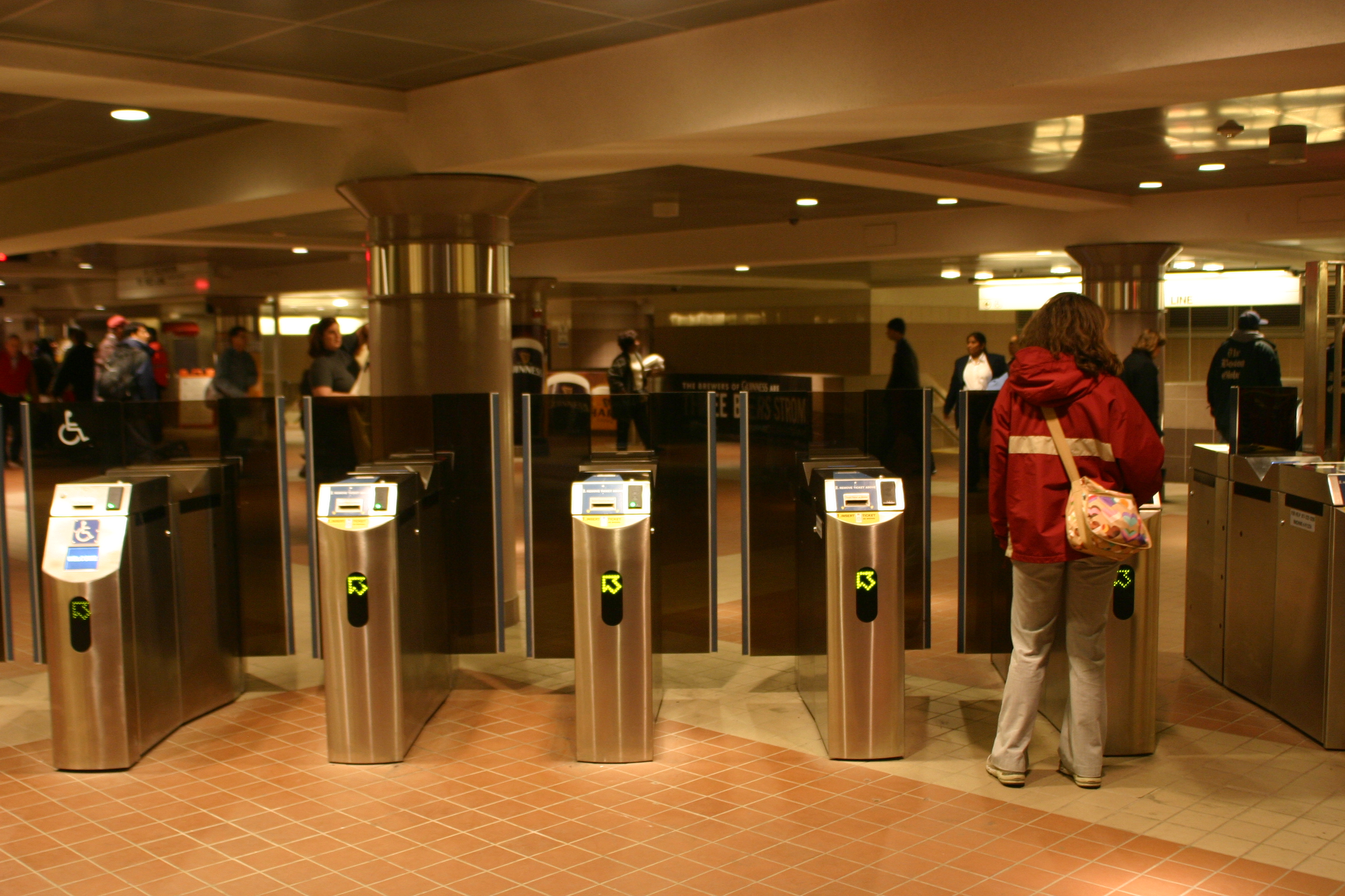 New faregates at South Station on the Red Line of the MBTA.